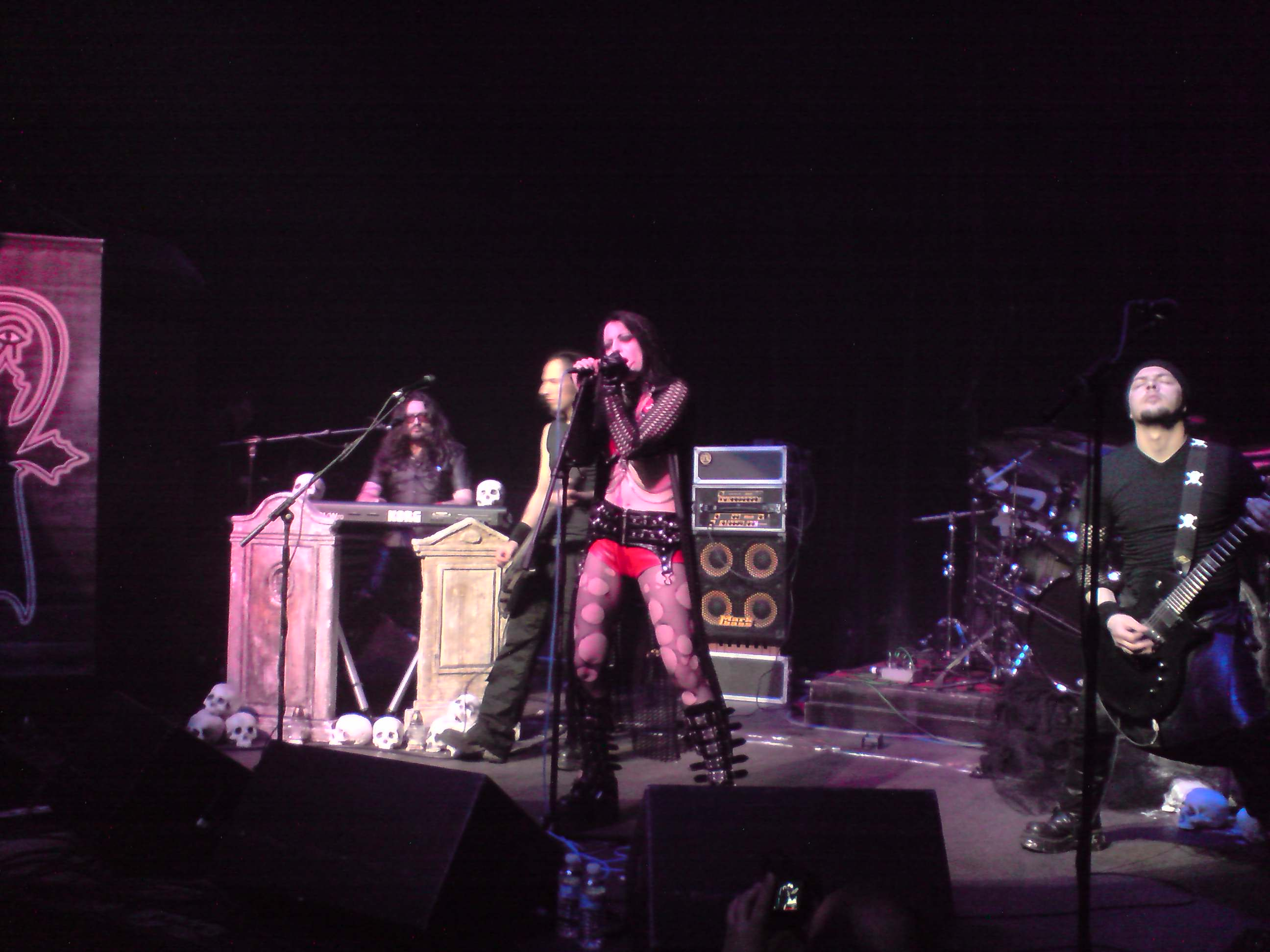 Theatres des Vampires performing in Newcastle, May 2011.